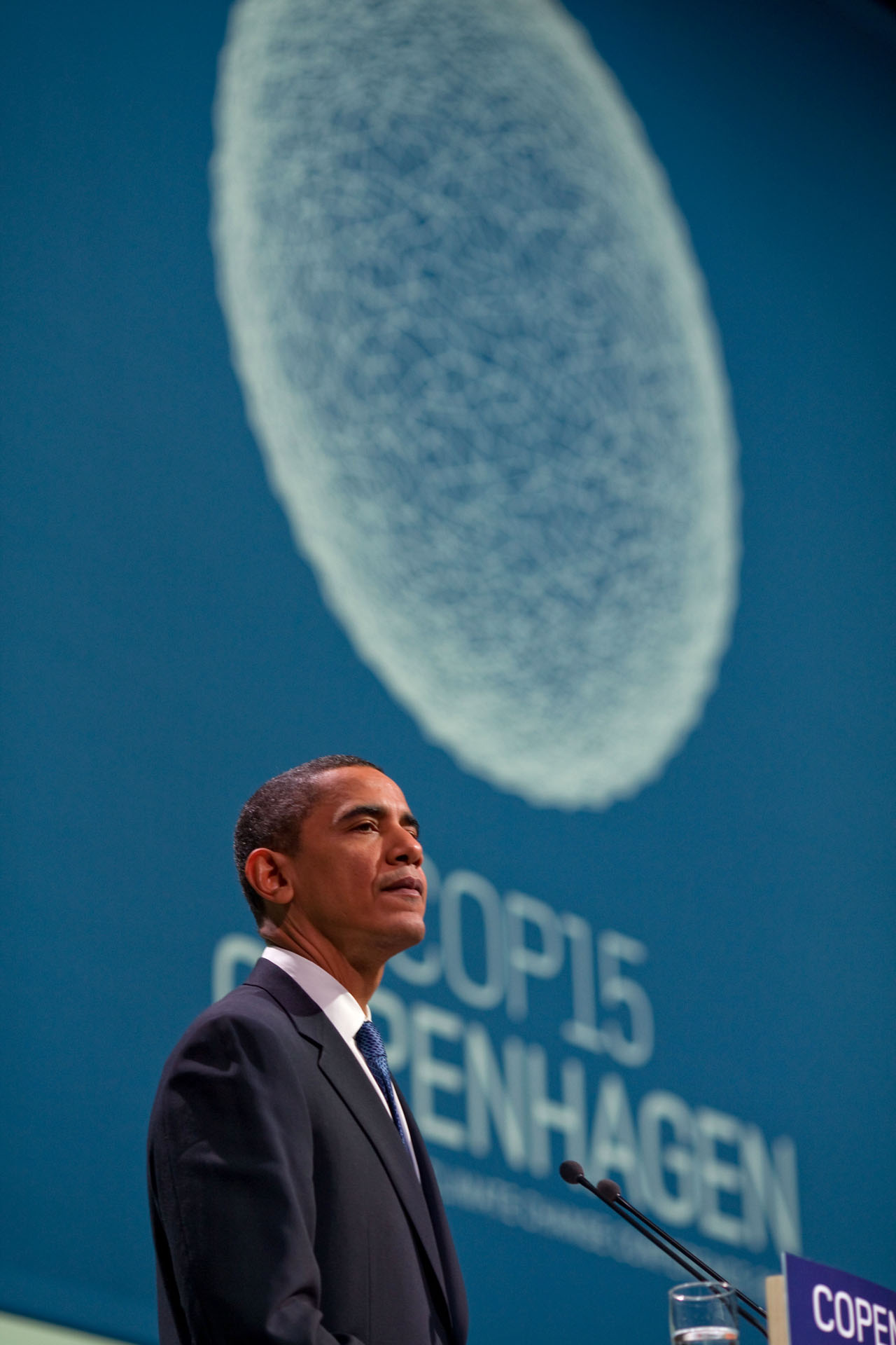 President Barack Obama delivers remarks during a morning plenary session of the United Nations Climate Change Conference at the Bella Center in Copenhagen, Denmark, December 18, 2009. (Official White House Photo by Pete Souza)